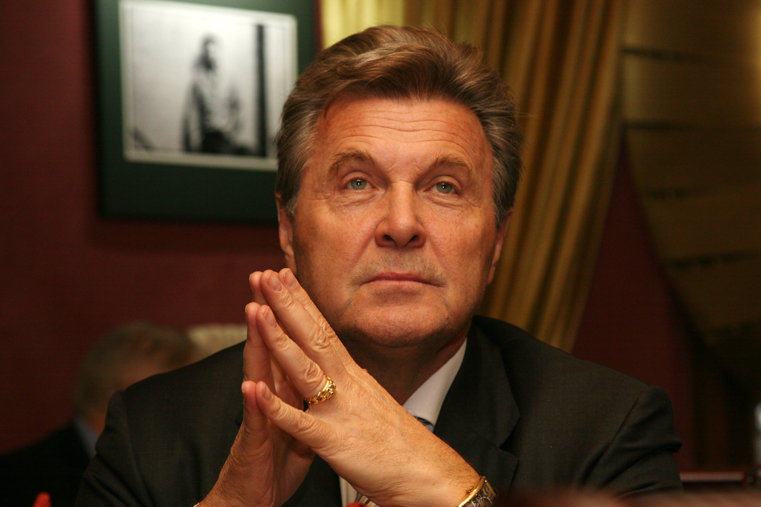 Lev Leschenko (Leshchenko) - russian singer